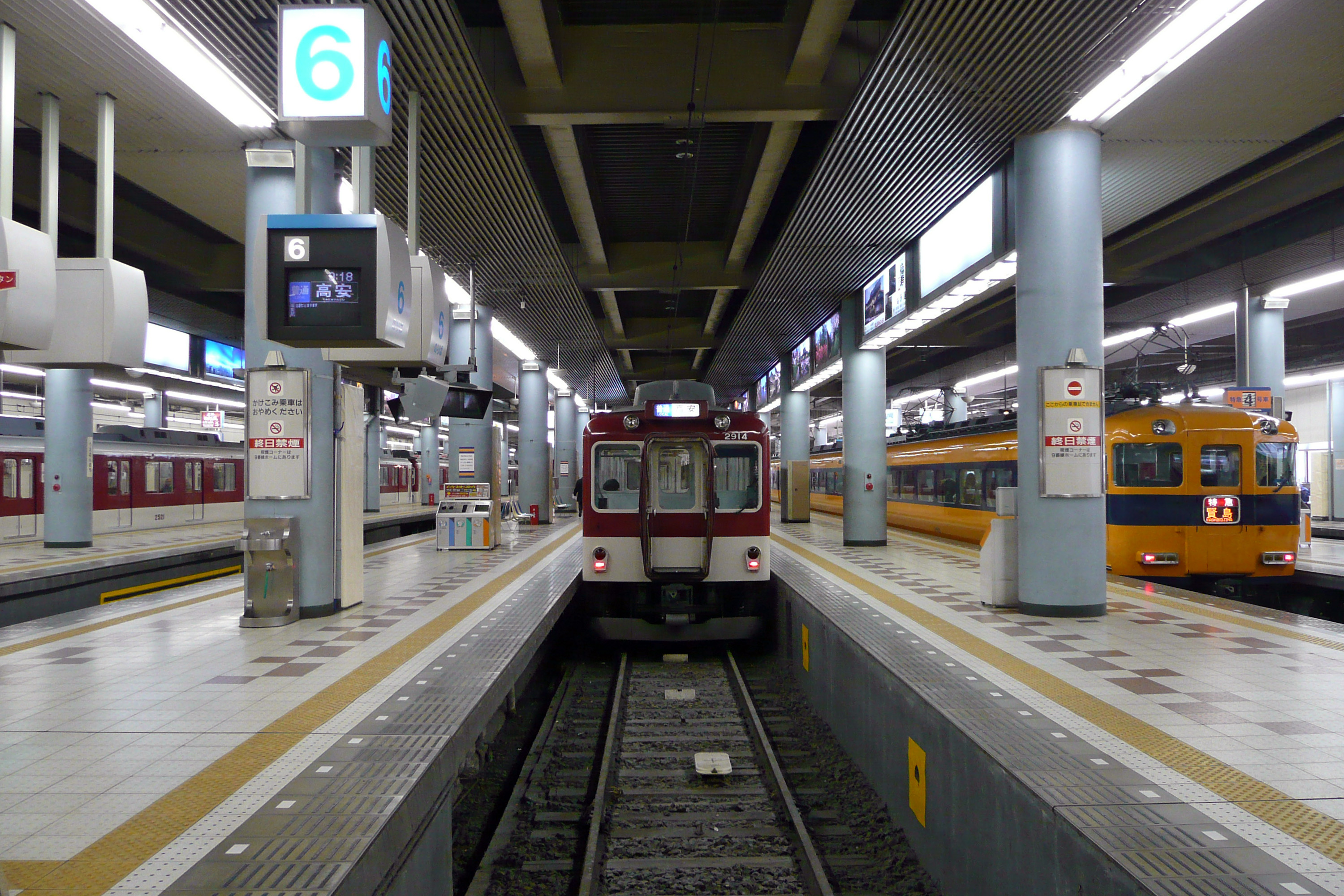 Uehommachi Station in Osaka, Osaka prefecture, Japan